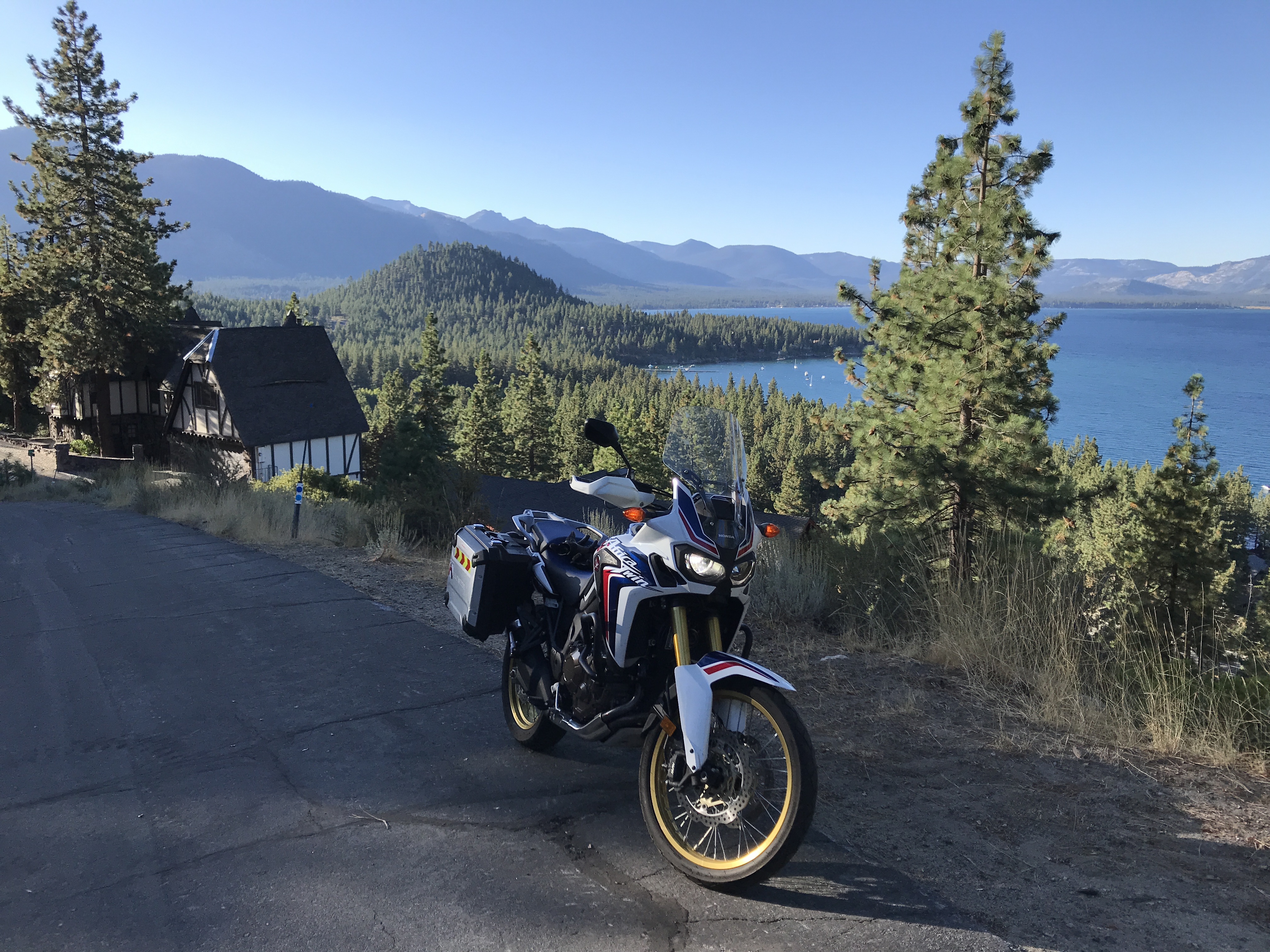 A motorcycle above Lake Tahoe